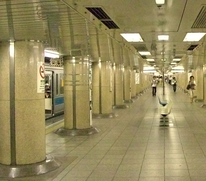 Tokyo Metro Chiyoda Line Shin-Ochanomizu Station Tokyo Japan